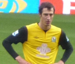 Radosav Petrovic playing for Blackburn Rovers